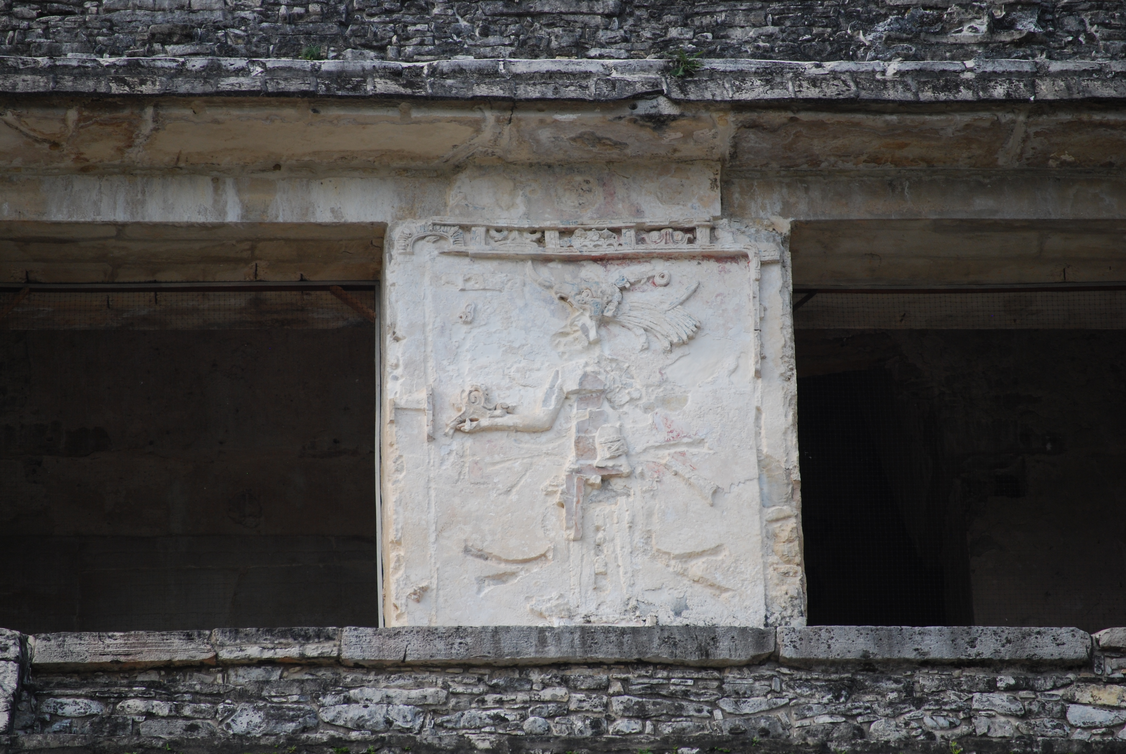 One of the panels on the upper part of the Temple of Inscriptions in Palenque, Chiapas, Mexico